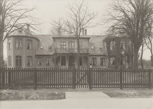 Norgesminde, former country house north of Copenhagen. The Museum of Copenhagen.